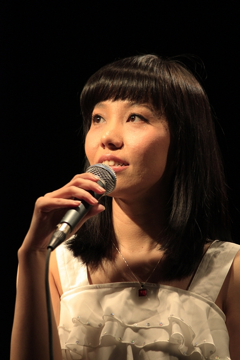 November 11, 2009 the Chinese mainland singer Cao Fang on conference of her new album 中文（中国大陆）: 2009年11月11日中国大陆女歌手曹方在新唱片《哼一首歌 等日落》的发布会上